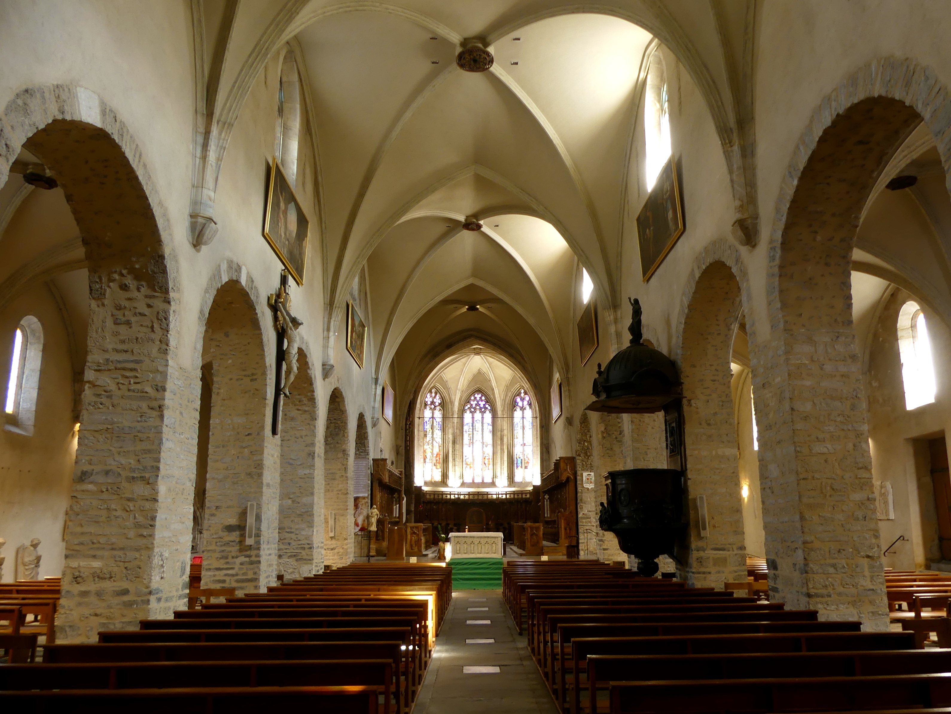 Sight of the nave and choir of Saint-Jean-de-Maurienne cathedral, in Savoie, France.